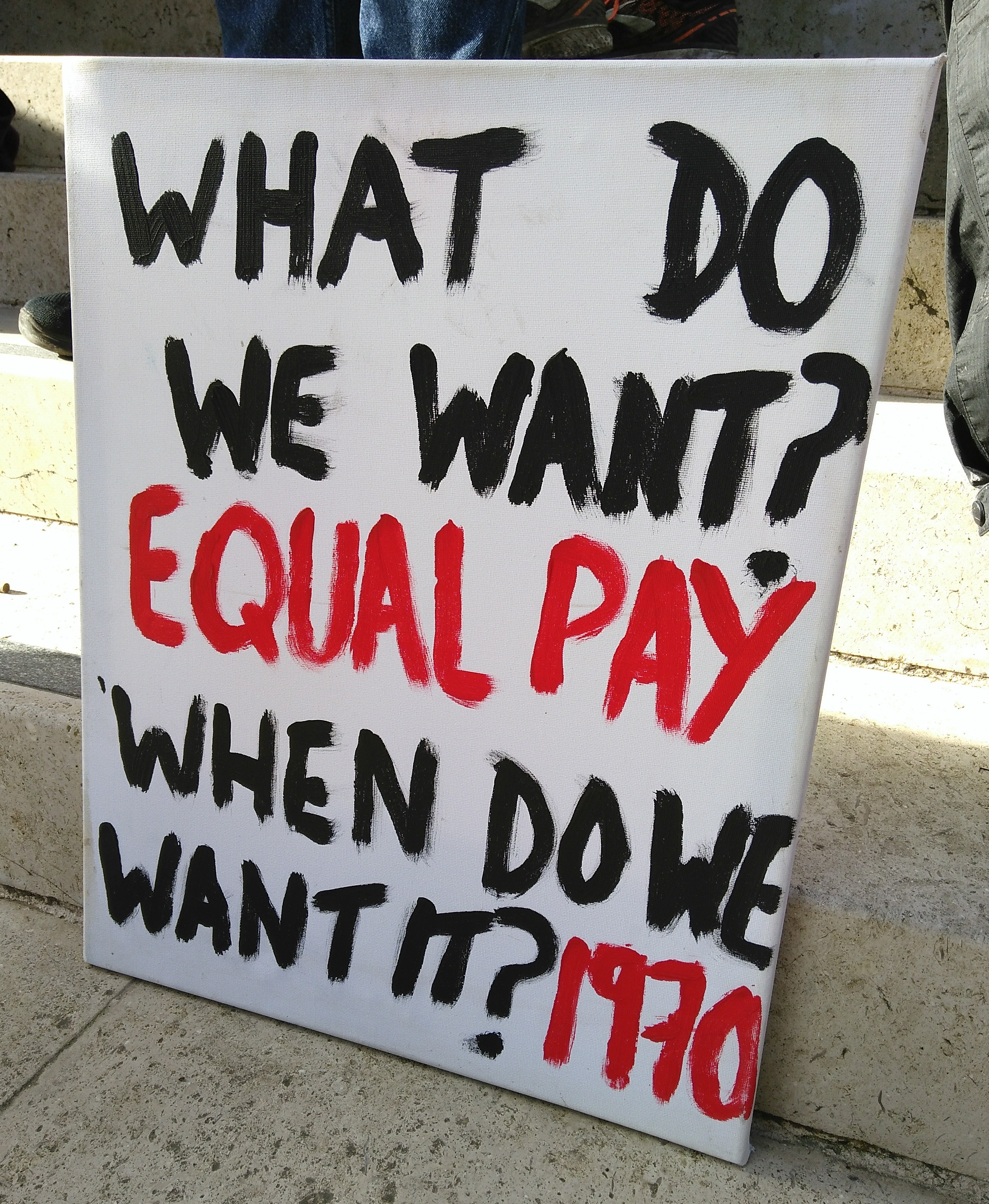 UCU strike placard reading "What do we want? Equal pay. When do we want it? 1970."